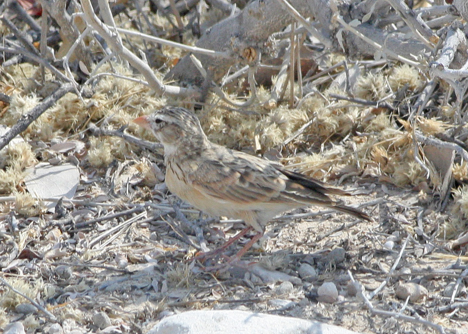 Hobatere to Etosha National Park